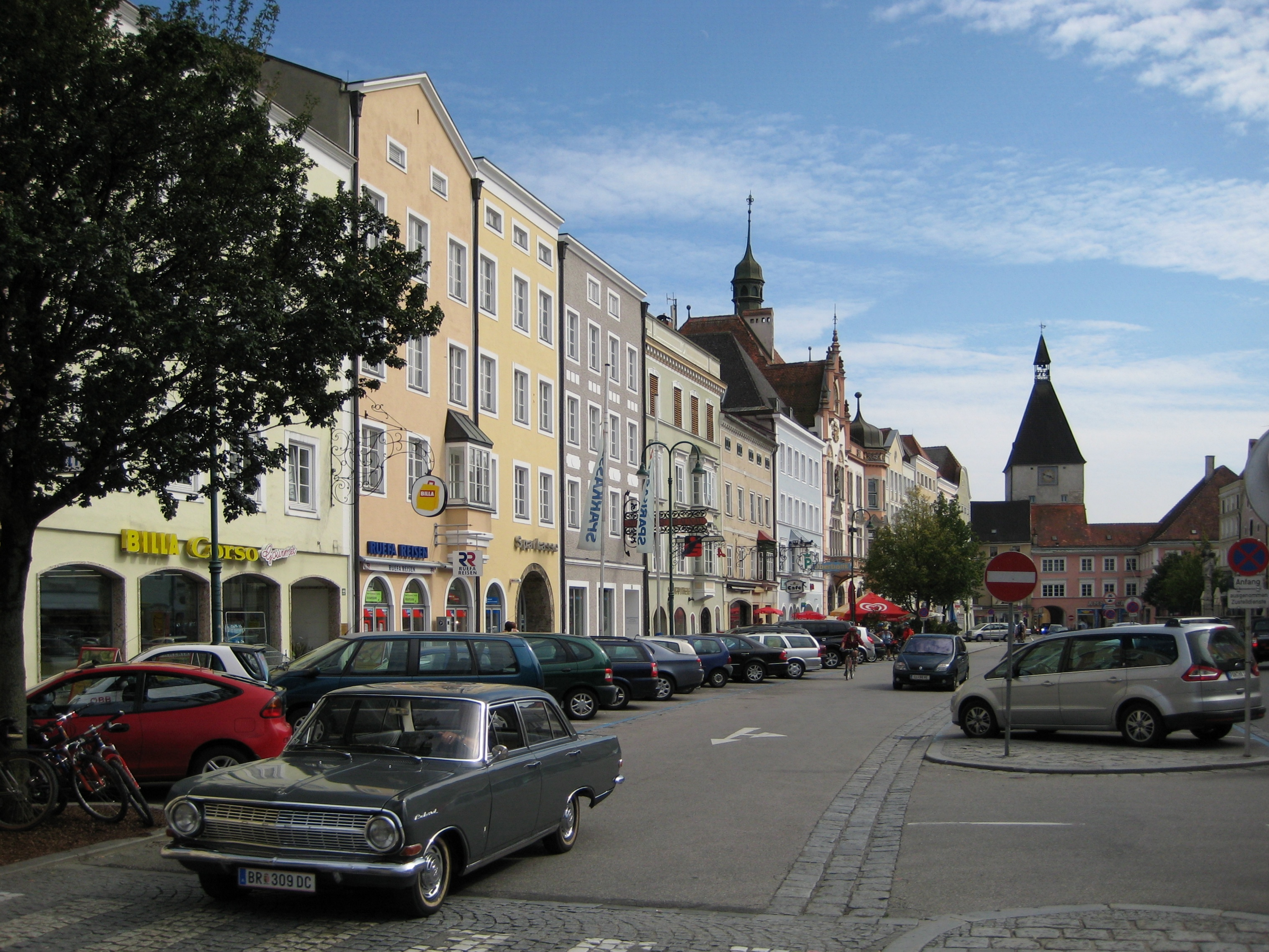 City center of Braunau am Inn